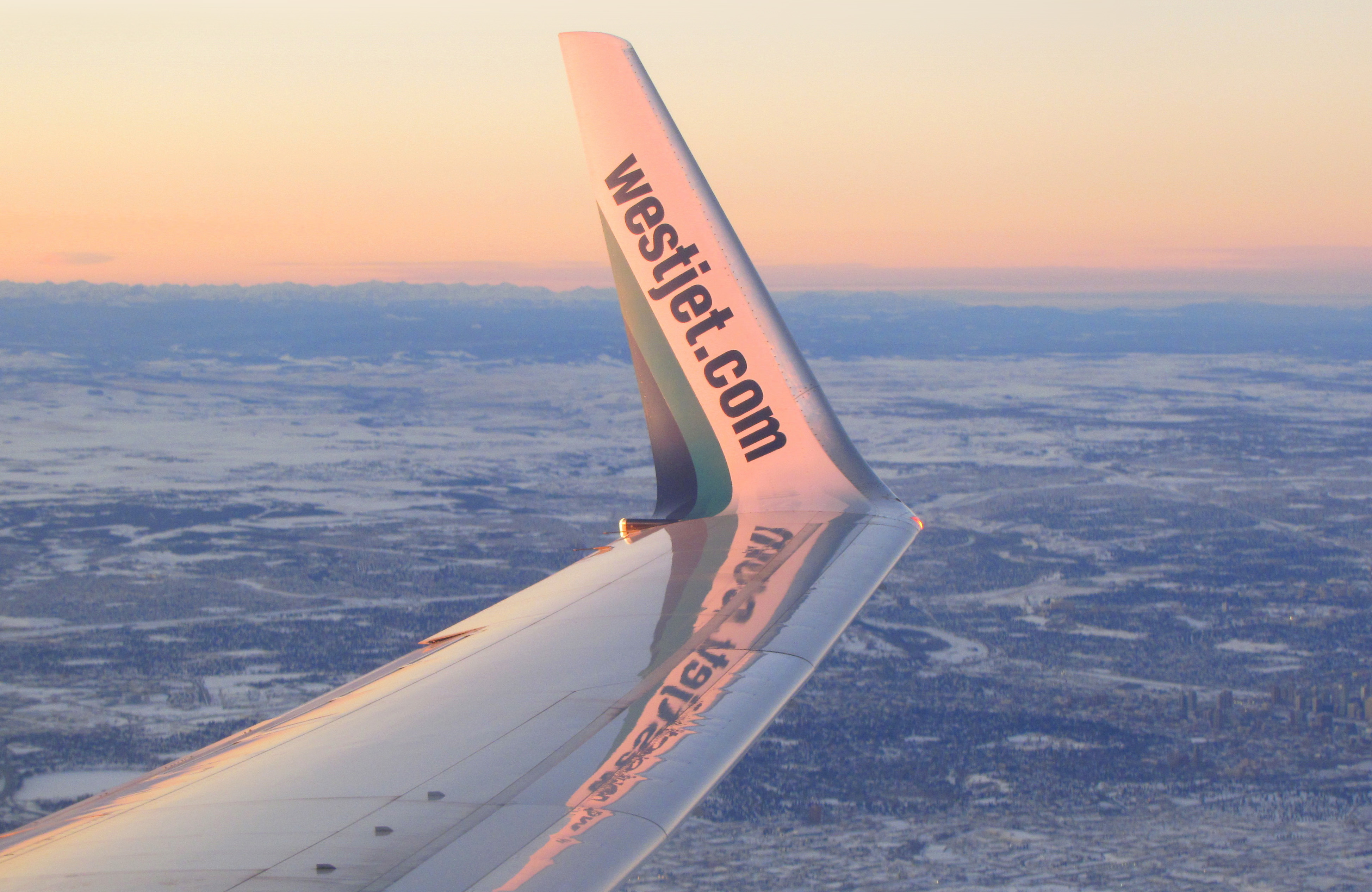 Flying WestJet on Christmas Day